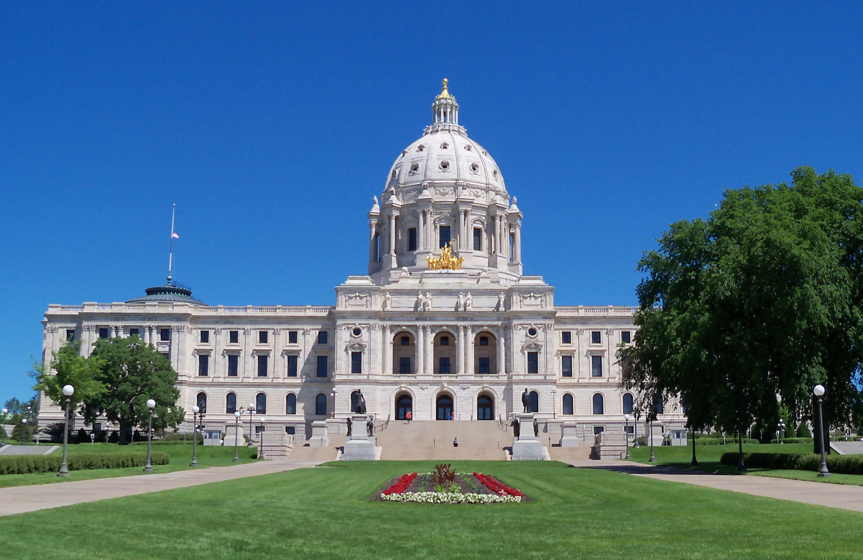 Minnesota State Capitol building in St. Paul, Minnesota, USA.